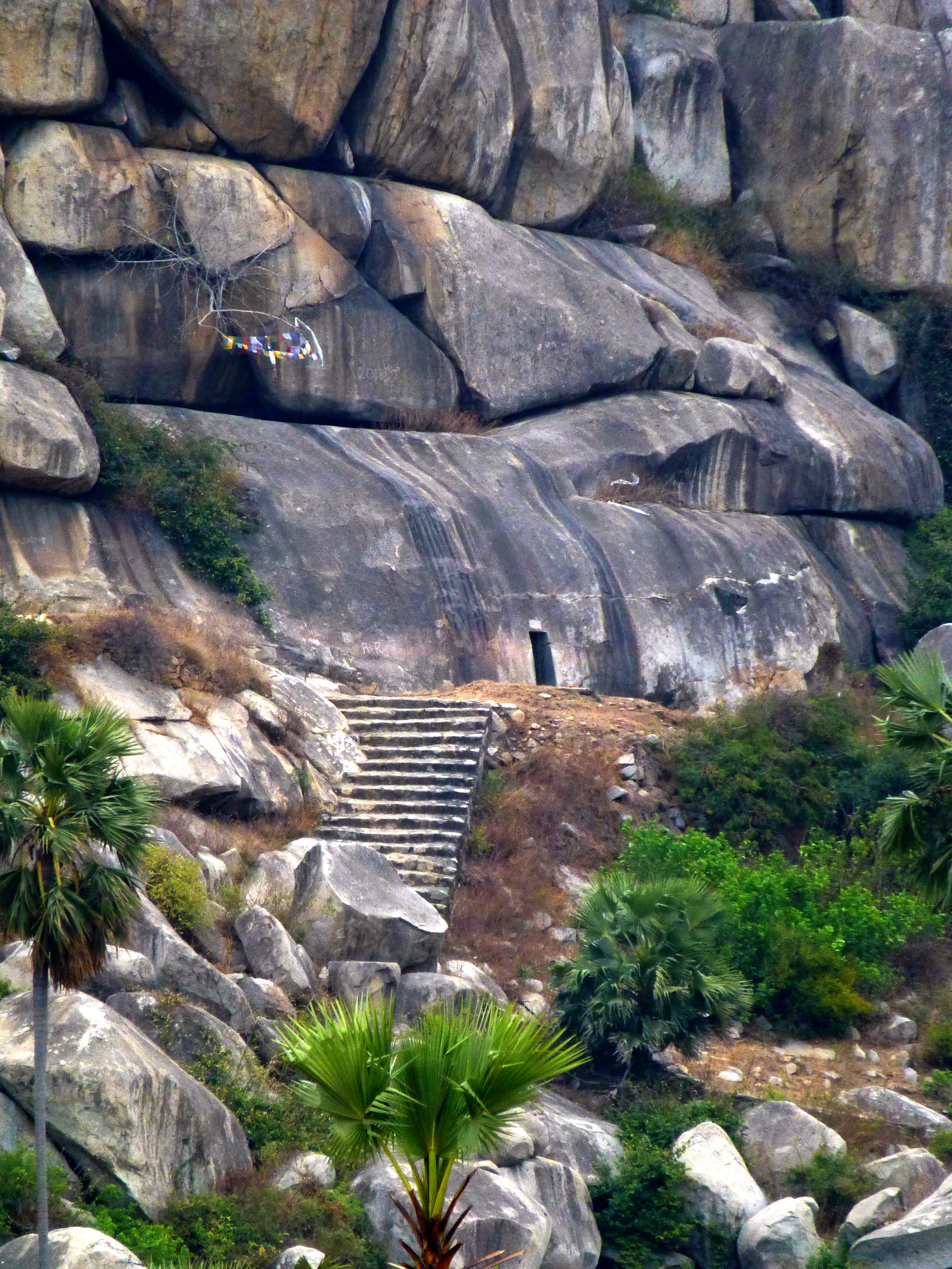 005 Staircase and Cave Entrance of the Gopika cave, at Barabar, Bihar Photograph from the Barabar Caves in Bihar taken by Anandajoti.